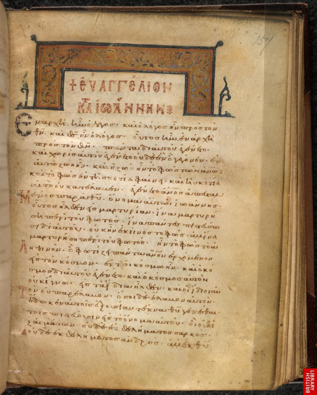 folio 4; page of the codex